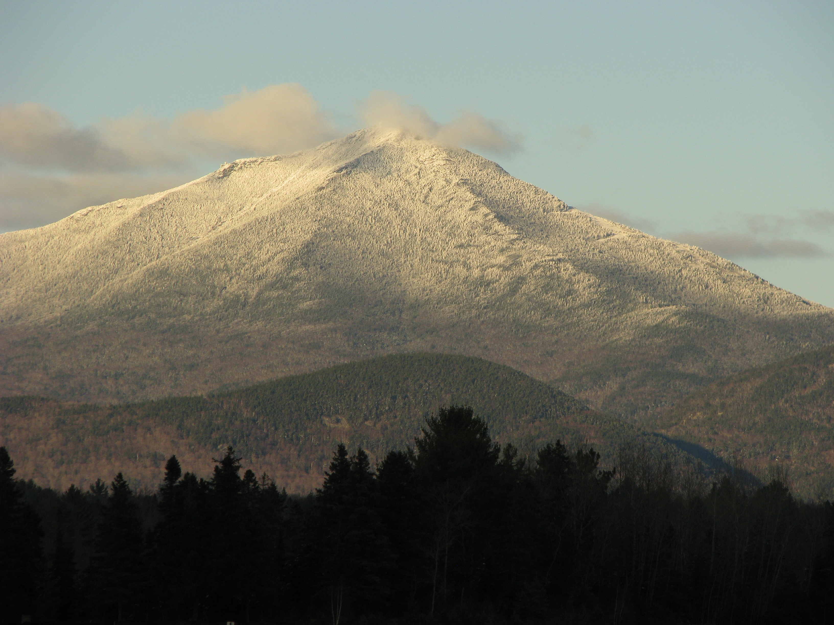 Whiteface Mountain from Lake Placid Airport